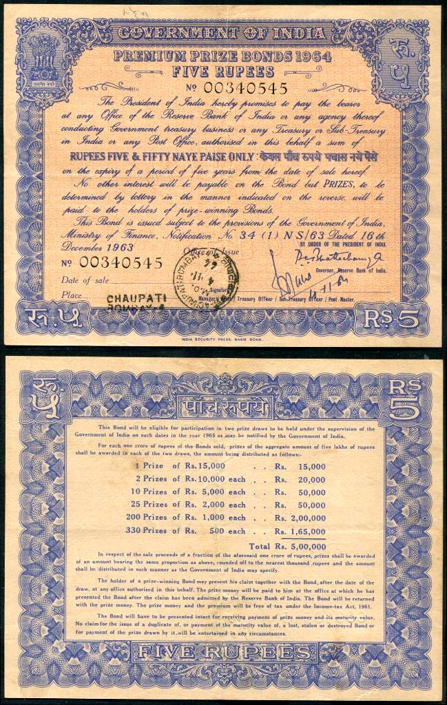 India 1964 Premium Prize Bond certificate.